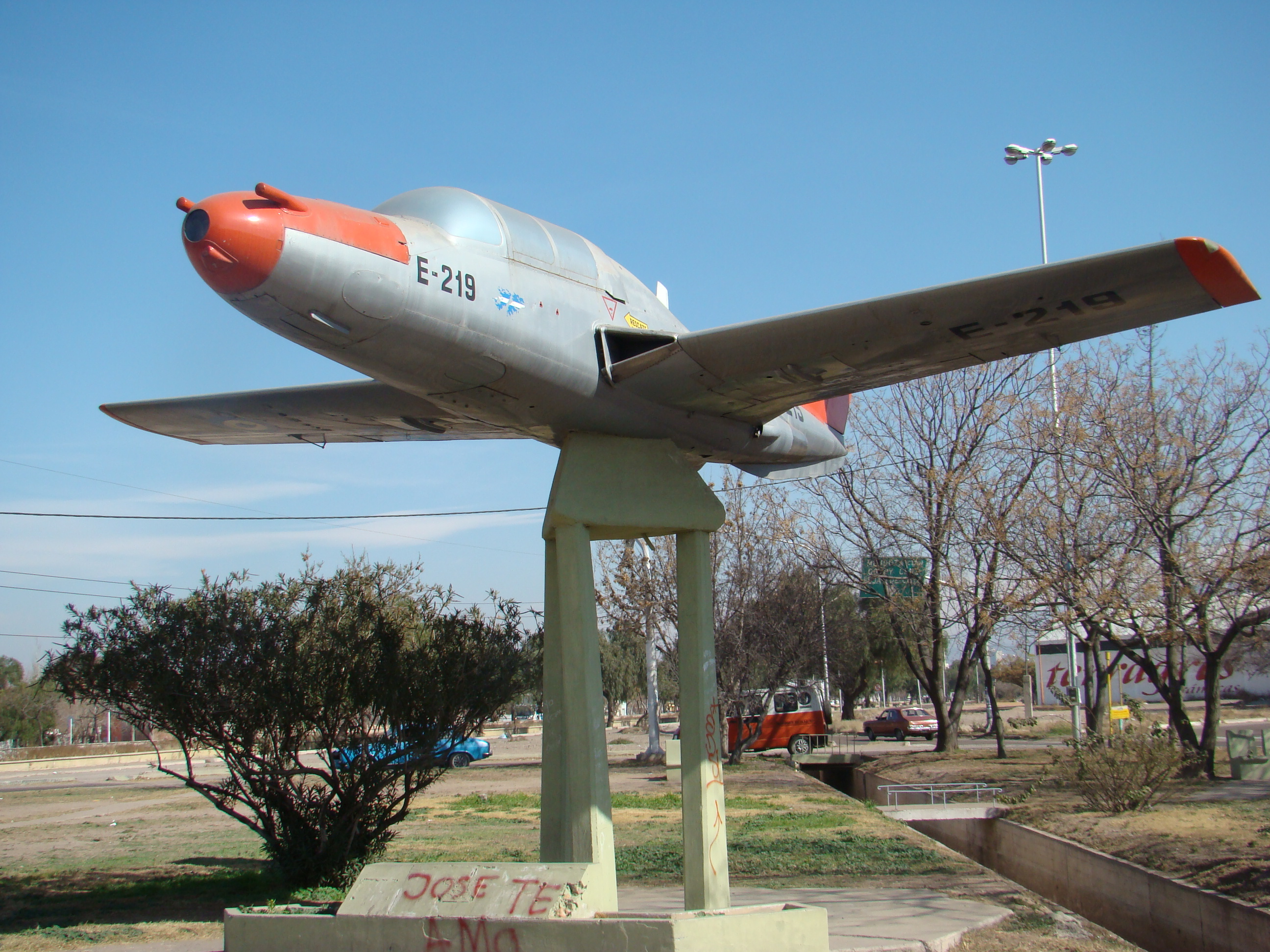 Argentine Air Force Morane-Saulnier MS-760 Paris at the city of Mendoza, Argentina